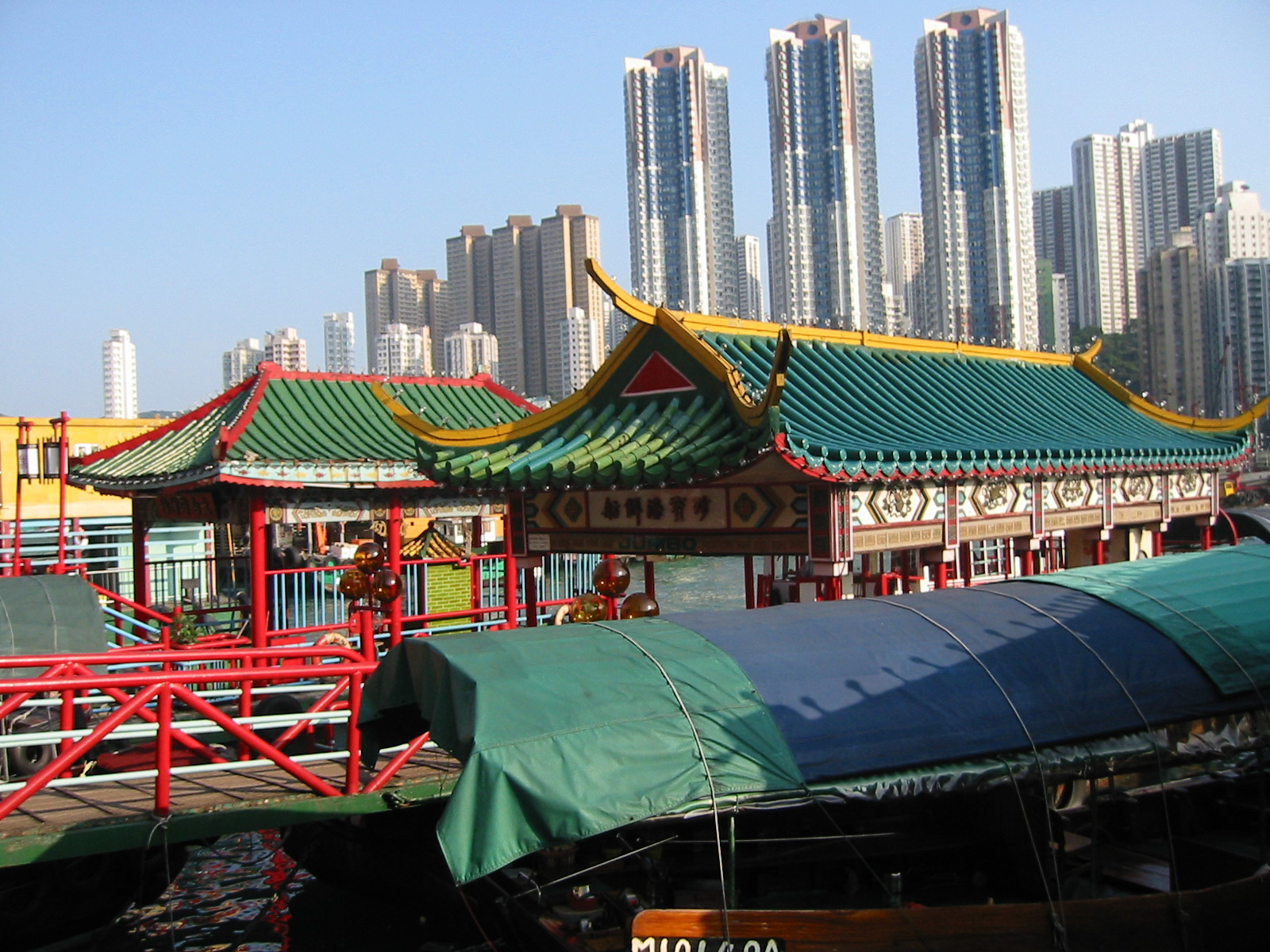 Boat pier in Aberdeen, in background skyline of Ap Lei Chau; September 2001; self photographed by User:Filzstift